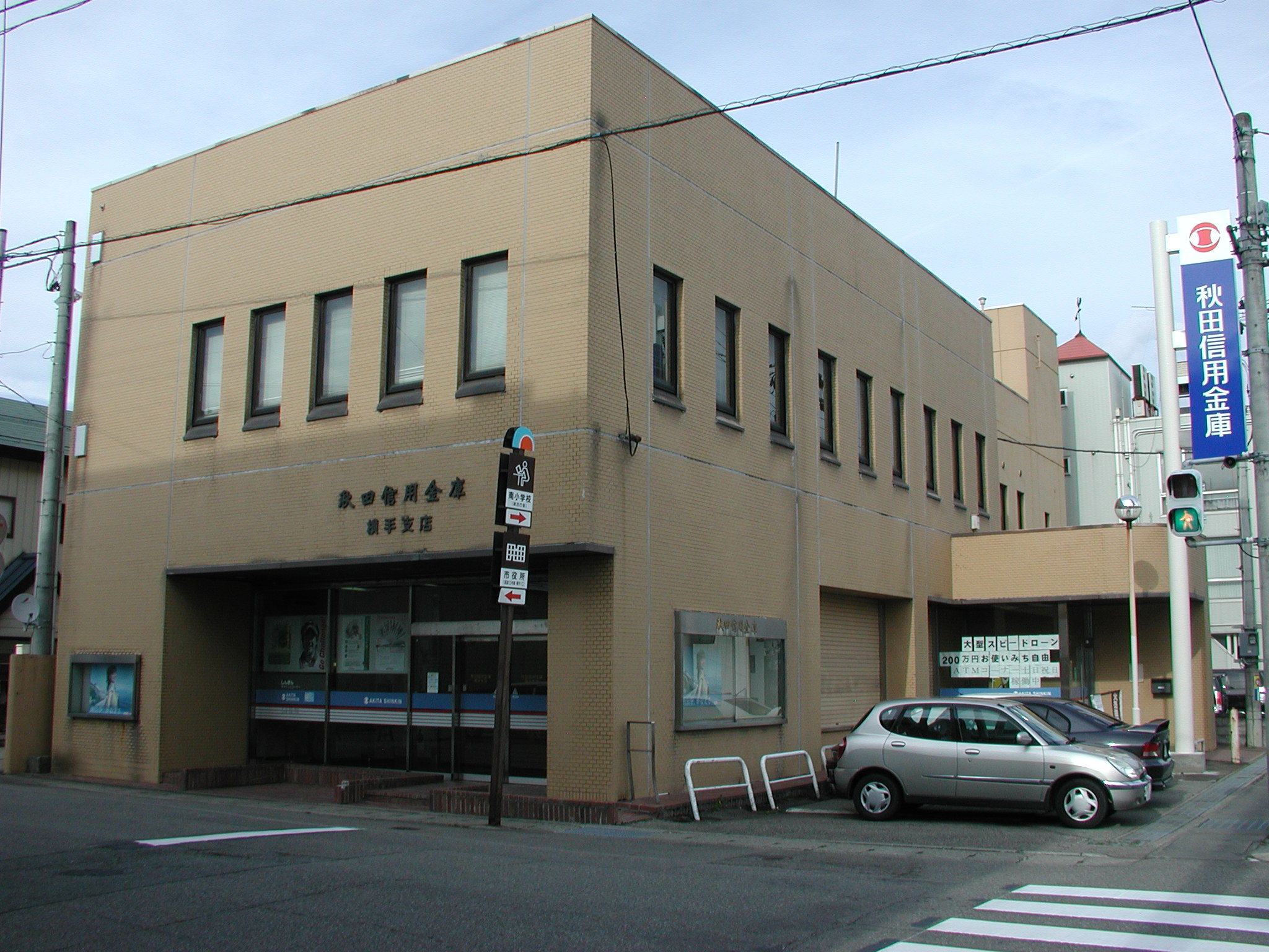 The Akita Shinkin Bank Yokote Branch